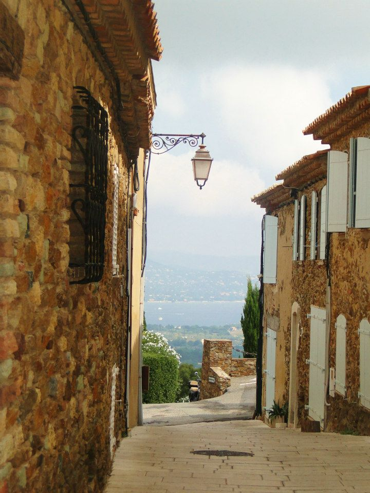 Bout de la rue Longue à Gassin (Var) avec vue sur le golfe de Saint-Tropez